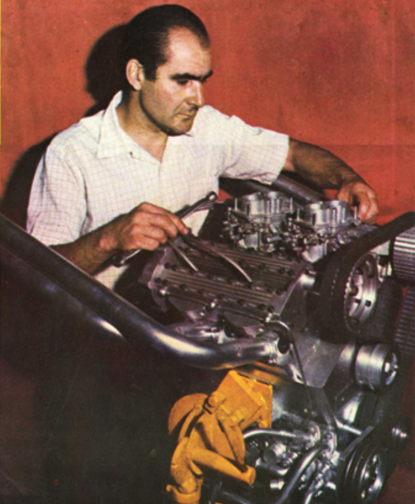 Augusto Cicaré and his International F2 engine